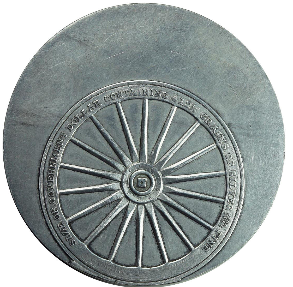 Obverse of a "Bryan Dollar" from the 1896 Presidential campaign. Democratic and Populist presidential candidate William Jennings Bryan proposed free silver, that is, if you presented silver at the mint, you'd get it back, stamped into silver dollars. At the time, the worth of the metal in a silver dollar was 47 cents, so obviously people would want to do this and it would be inflationary. This piece demonstrates the argument against free silver, championed by Republican candidate William McKinley